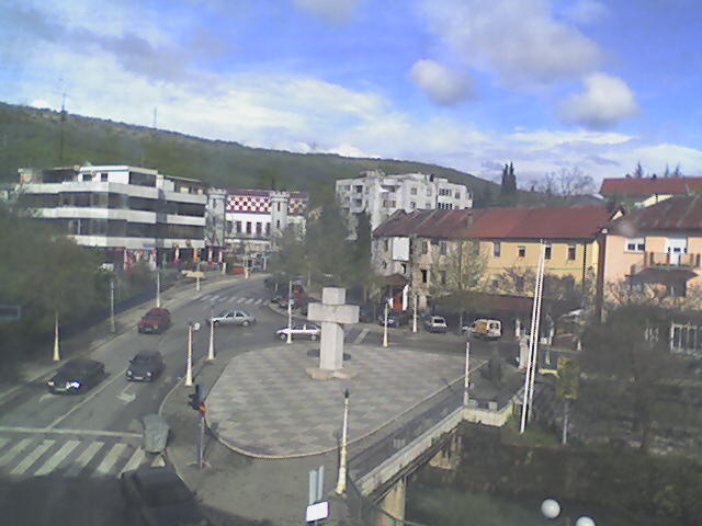 Široki Brijeg, Bosnia and Herzegovina